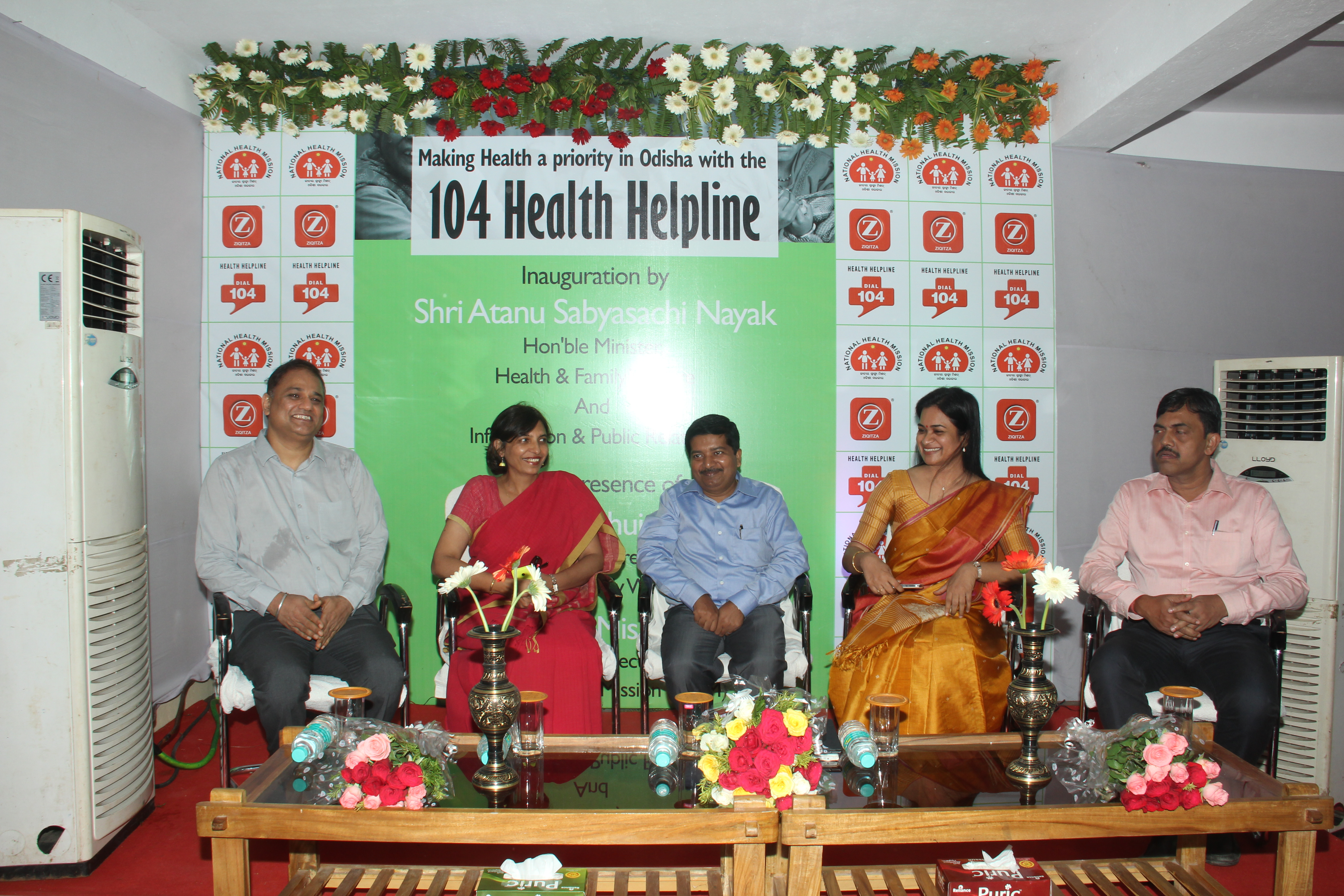 A still from the launch event of 104 Health Helpline Number in Odisha. Minister of Health and Family Welfare, Atanu Sabyasachi Nayak along with Principal Secretary Health and Family Welfare Arti Ahuja, Mission Director – National Health Mission Roopa Mishra were present at the event on October 13, 2015.